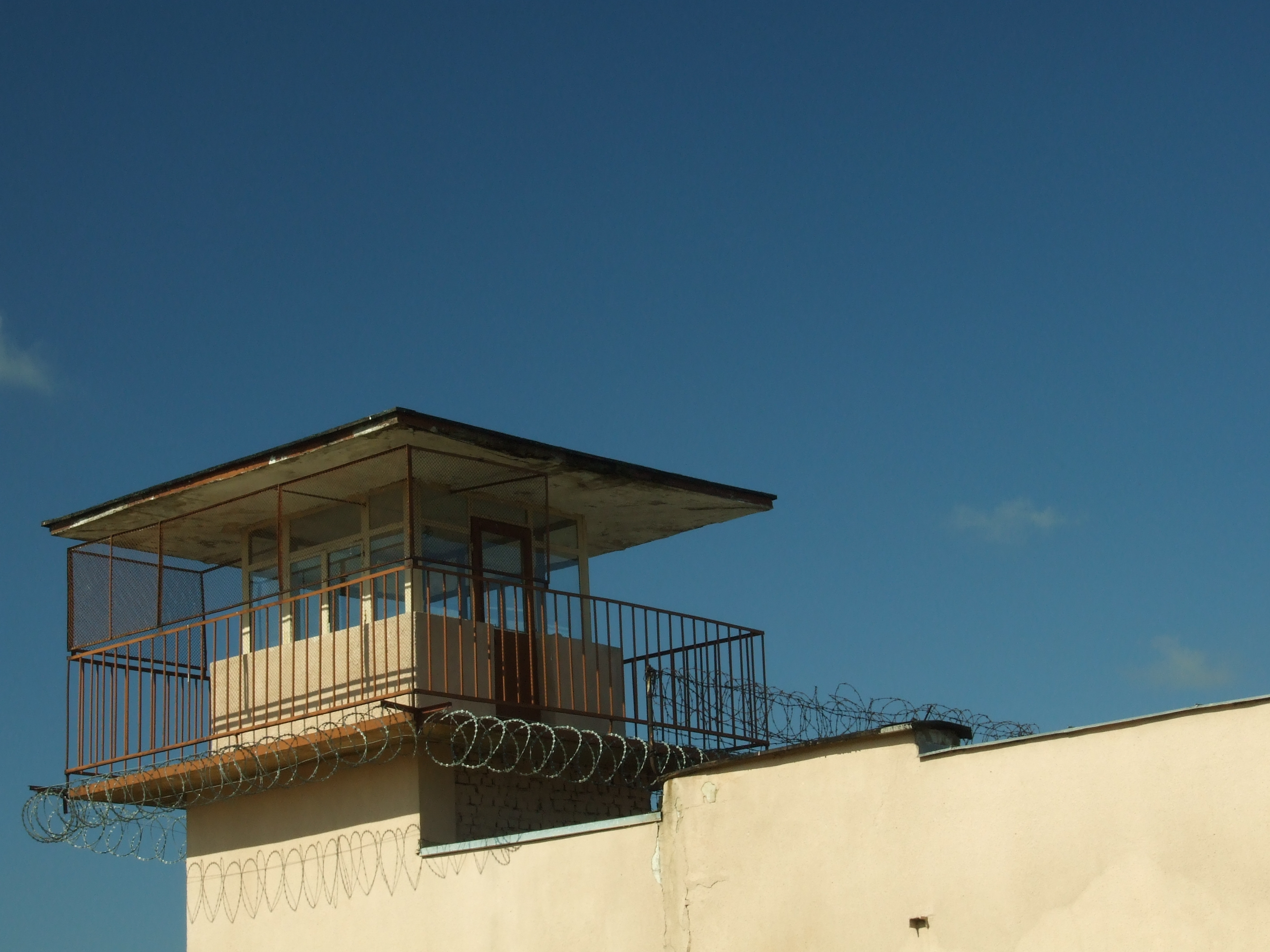 Prison vatchtower in Starogard Gdański prison, Pomeranian voivodeship, Poland